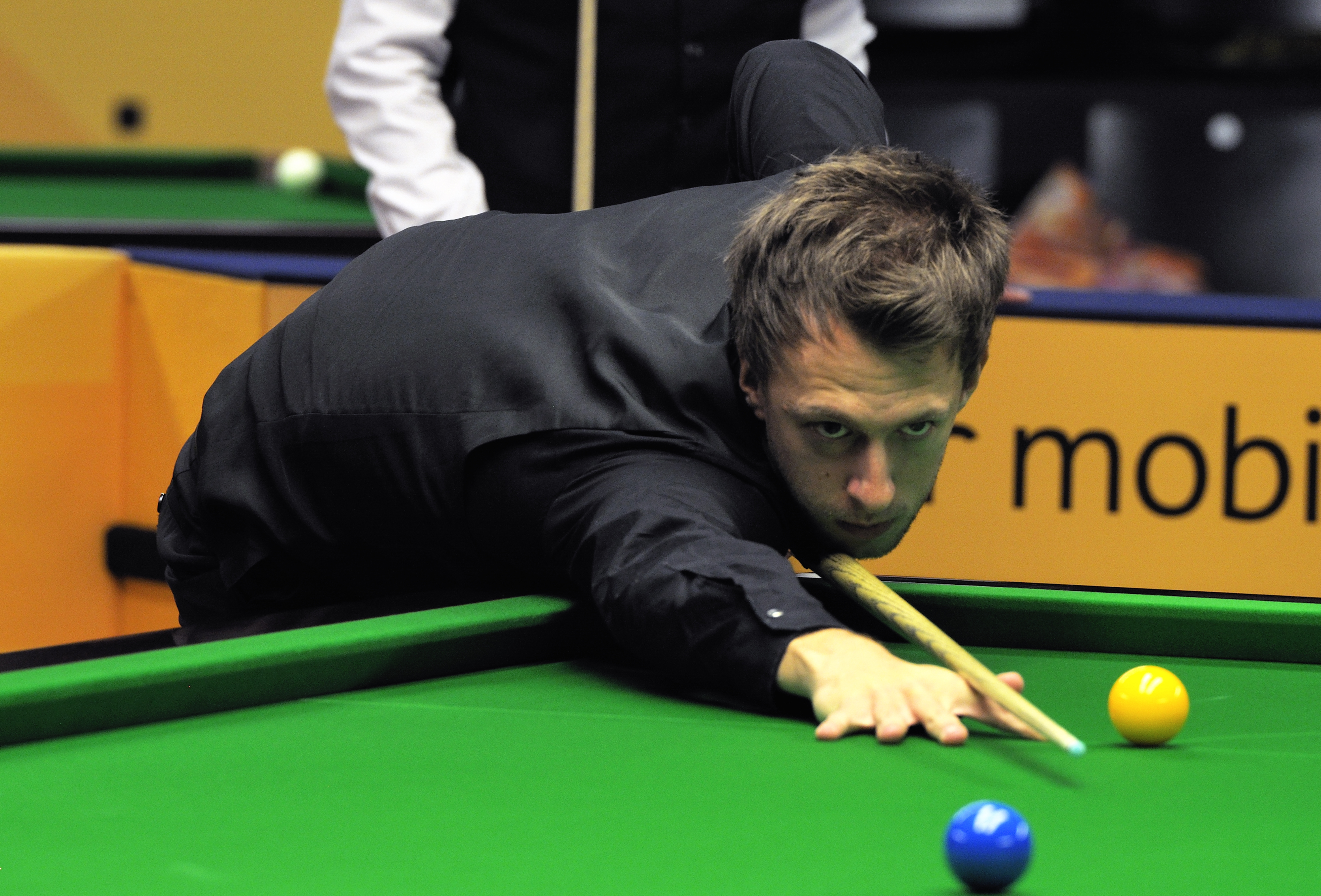 Picture taken in Berlin during the Snooker German Masters in 2013. Judd Trump.